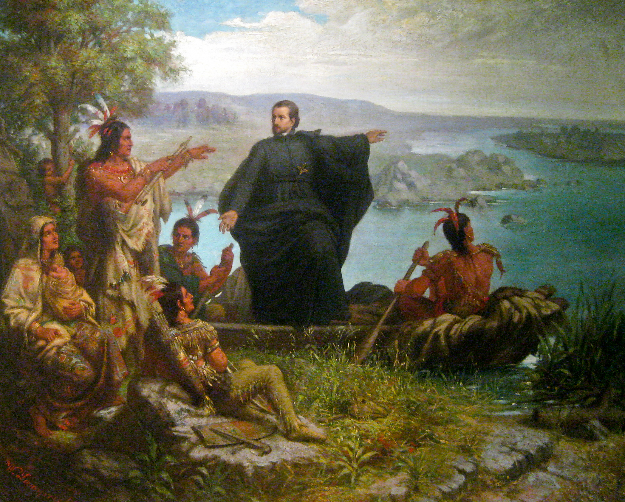 Oil on canvas. Père Marquette and the Indians. The original hangs in the Raynor Memorial Library at Marquette University, Milwaukee, Wisconsin. I took a photograph on Sept. 19, 2009.